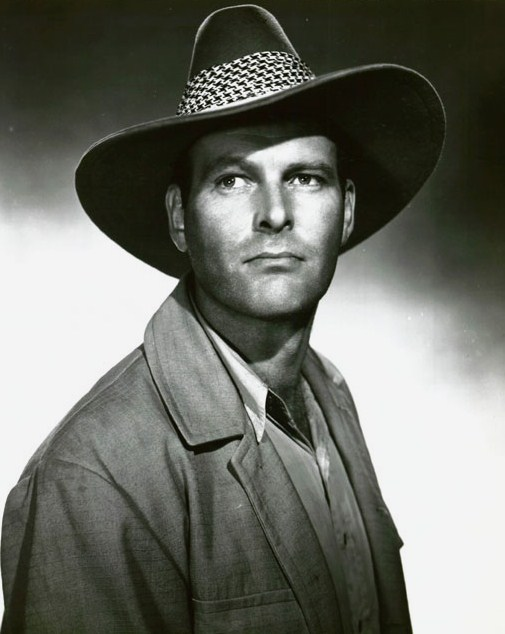 Leif Erickson in imdb: Blonde Savage wikip.: Blonde Savage- publicity still